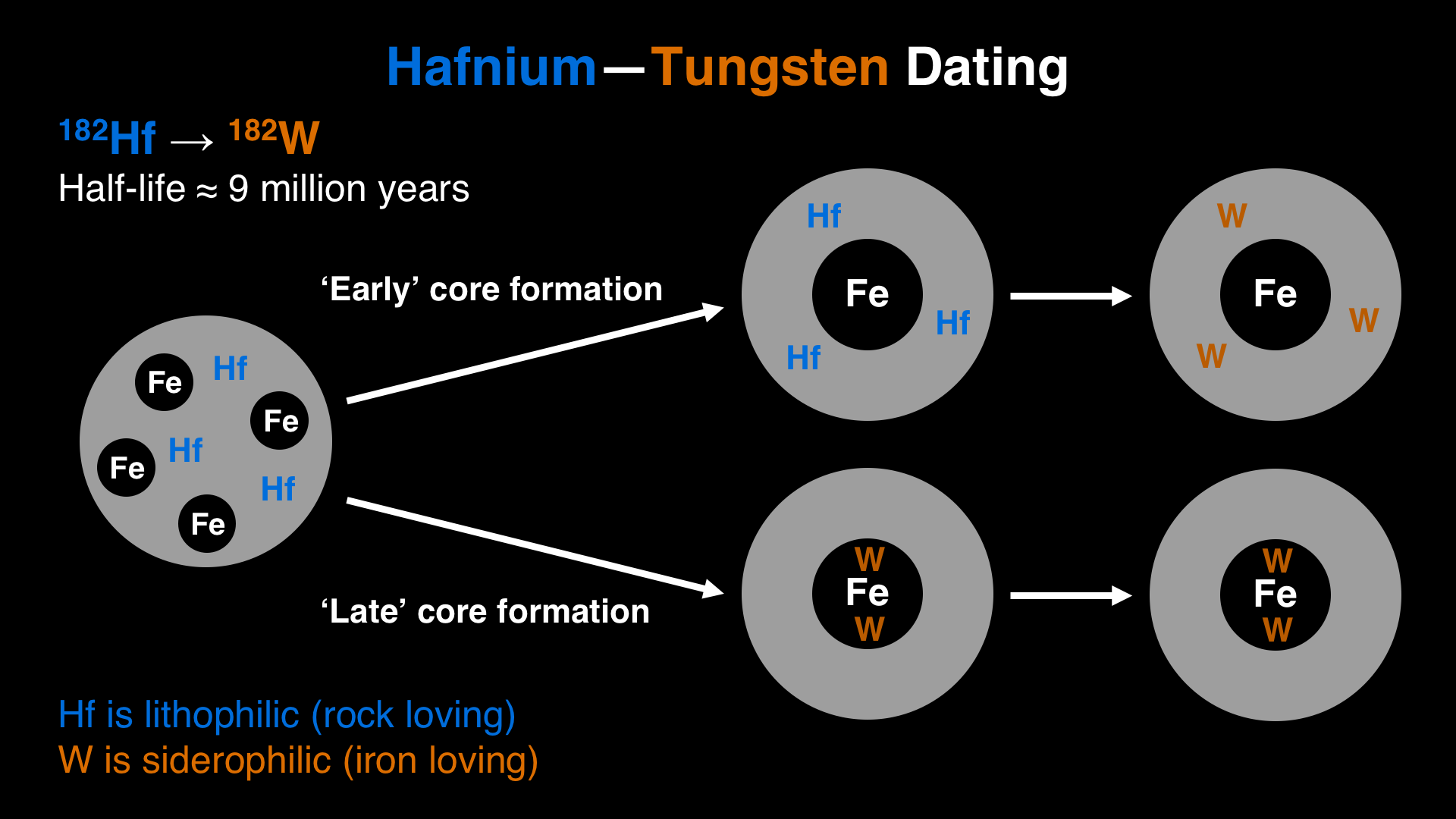 Hafnium-182 radioactively decays to tungsten-182 with a half-life of about 9 million years. This system can be used to date when core formation occurred for a particular planet. Hafnium is lithophilic (rock loving) and tungsten is siderophilic (iron loving). Early in a planet's history it would have been undifferentiated, meaning that it would not have been layered according to density (with the densest material being towards the interior of the planet). If differentiation (core formation) occurred relatively early in a planet's history then hafnium would not have much time to decay to tungsten. Being that hafnium is lithophilic, it would remain in the mantle (or outer layers of the planet). Then after some time, hafnium would decay to tungsten. On the other hand, if differentiation (core formation) occurred later in a planet's history, then hafnium would have decayed to tungsten. Being siderophilic, tungsten would move towards the interior of the planet along with iron. In this scenario, not much tungsten would subsequently be present in the outer layers of the planet. As such, by looking at how much tungsten is present in the outer layers of a planet, the time of differentiation (core formation) can be quantified.